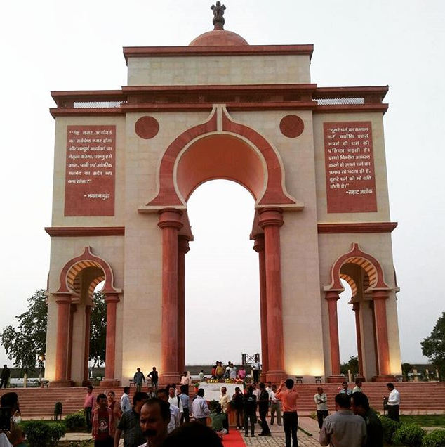 Sabhyatadwarpatna